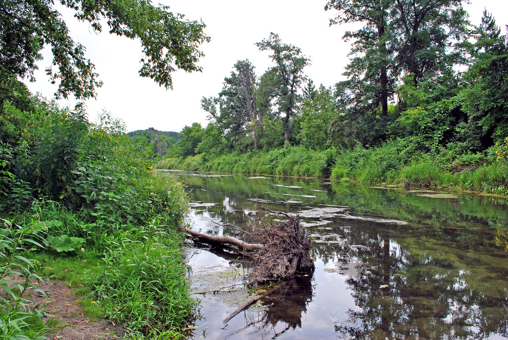 Rush River (Wisconsin), below State Highway 29